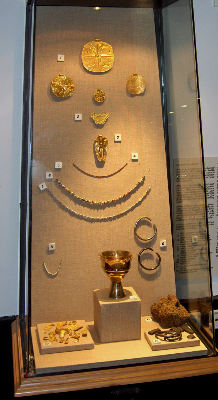 Egyptian jewelry; Uluburun shipwreck, St. Peter's castle, Bodrum, Turkey 1. gold disk-shaped pendant 2. gold falcon pendant 3. gold goddess pendant 4. faience beads 5. rock crystal beads 6. agate beads 7. faience beads 8. ostrich eggshell beads 9. silver bracelets 10. gold scrap 11. gold chalice 12. accreted mass of tiny faience beads 13. silver scrap